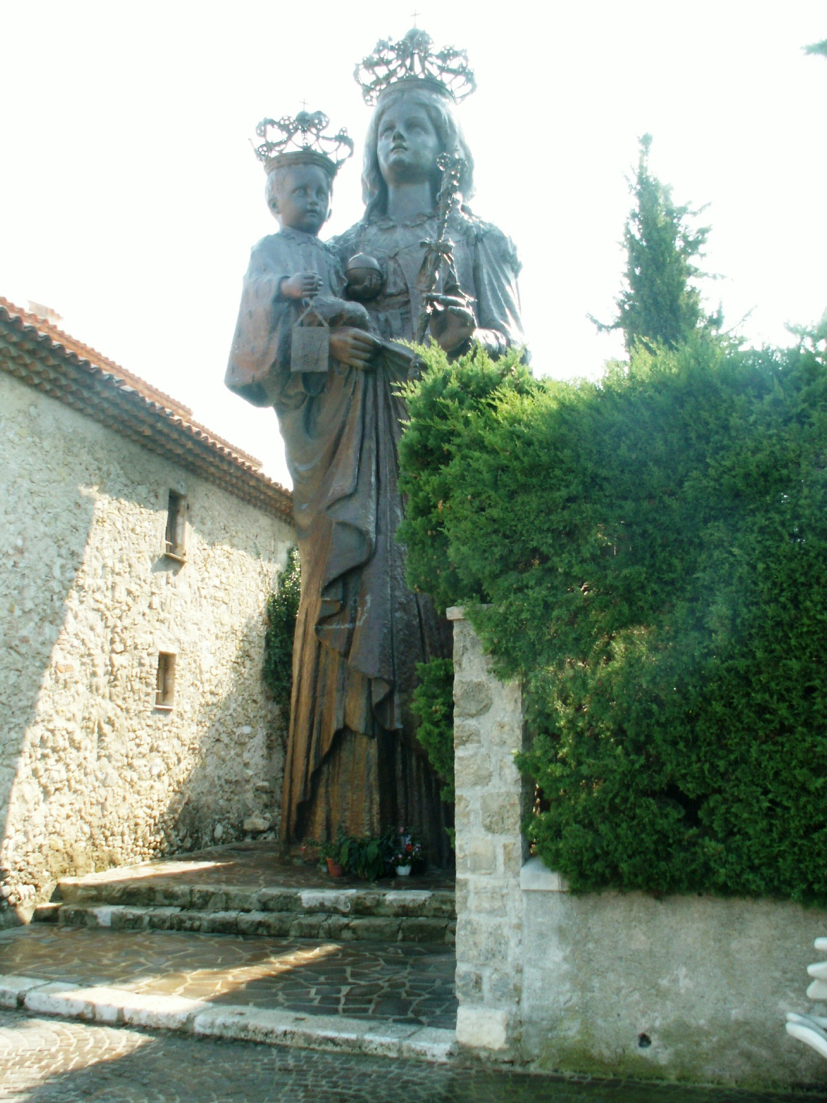 Black Madonna of Saint-Jean-Cap-Ferrat